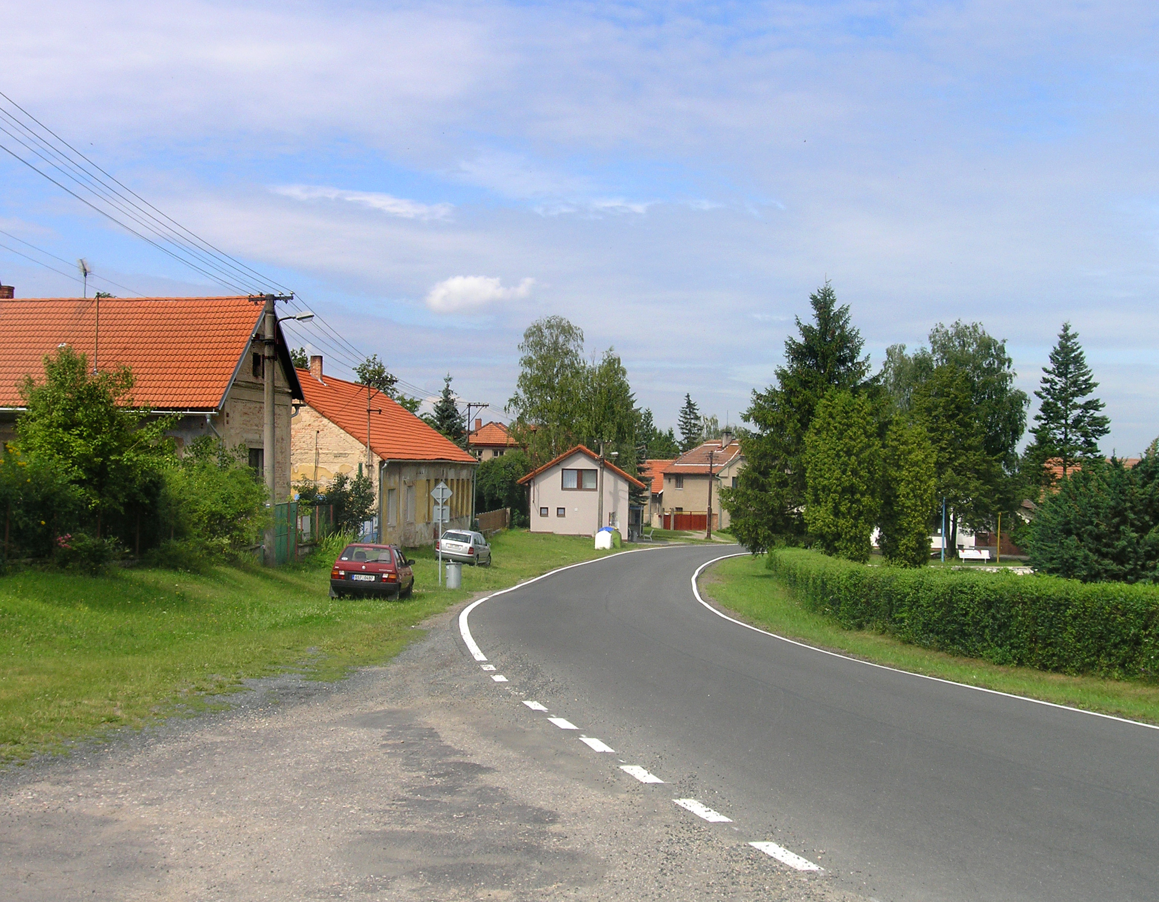 East part of Polní Chrčice, Czech Republic